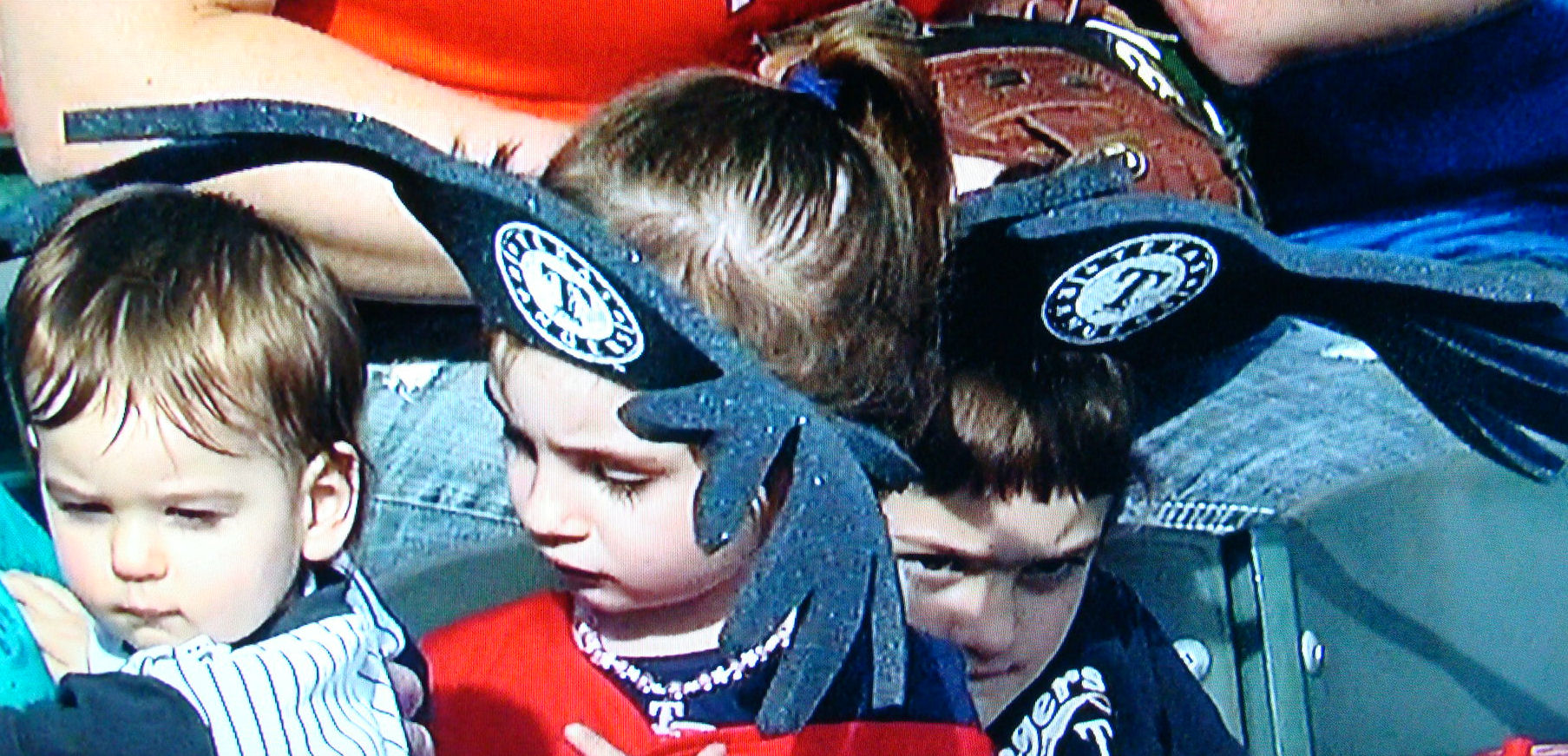 Two Ranger fans wearing 'antlers' to a baseball game